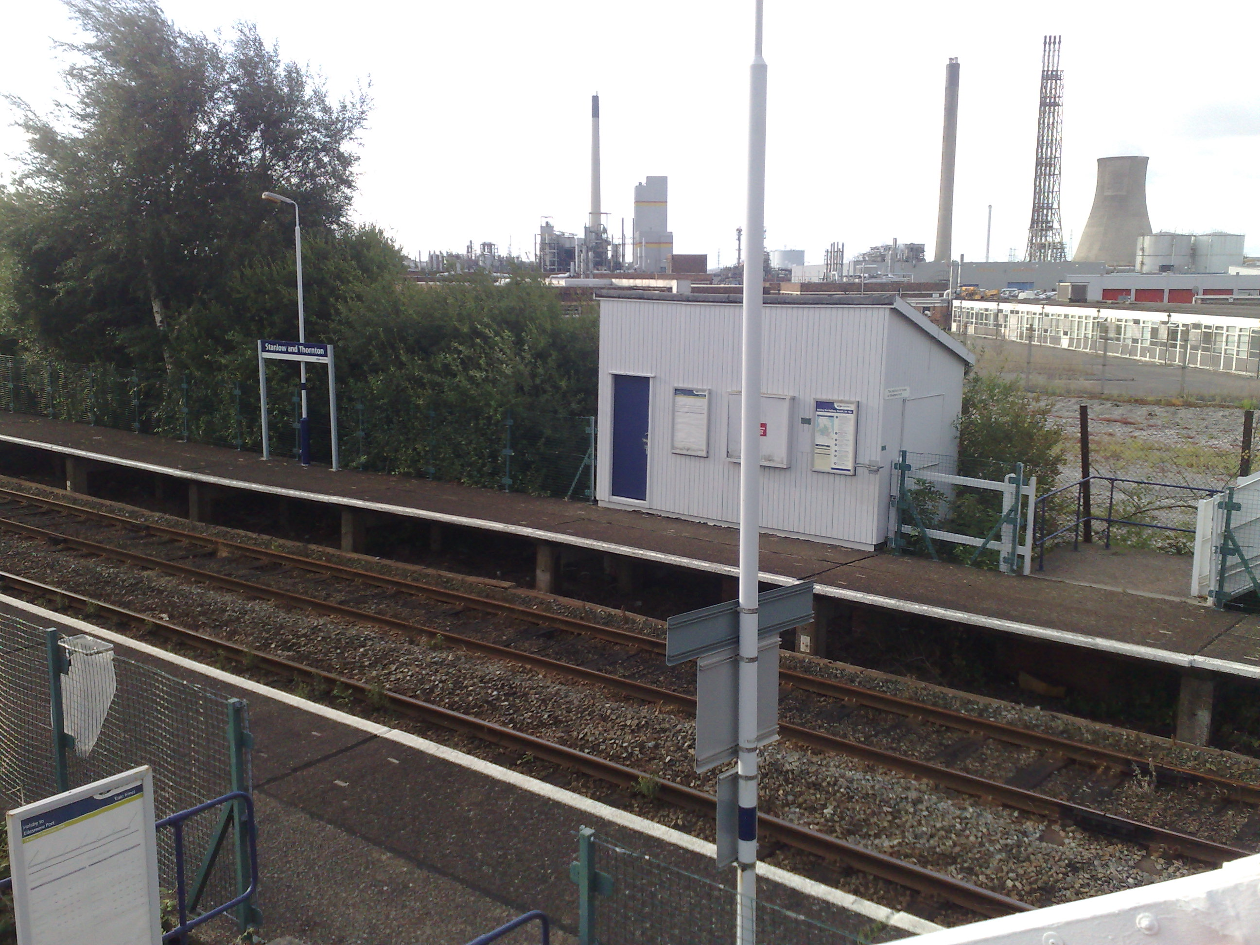 Stanlow booking office on EP platform